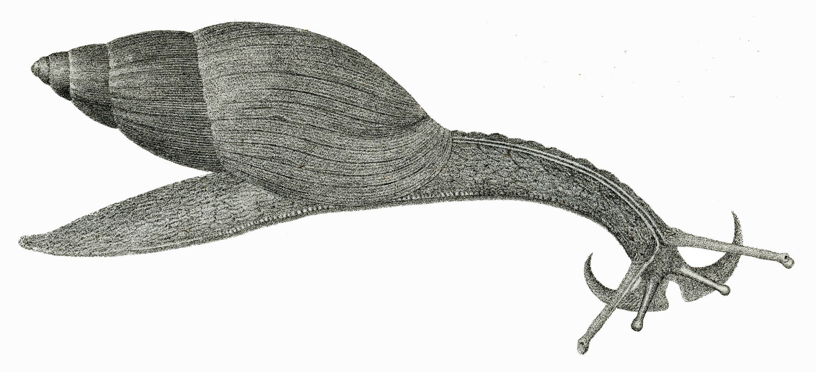 Euglandina rosea, called Glandina truncata by Binney in 1857